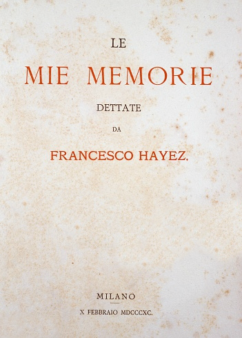 Le Memorie di Hayez